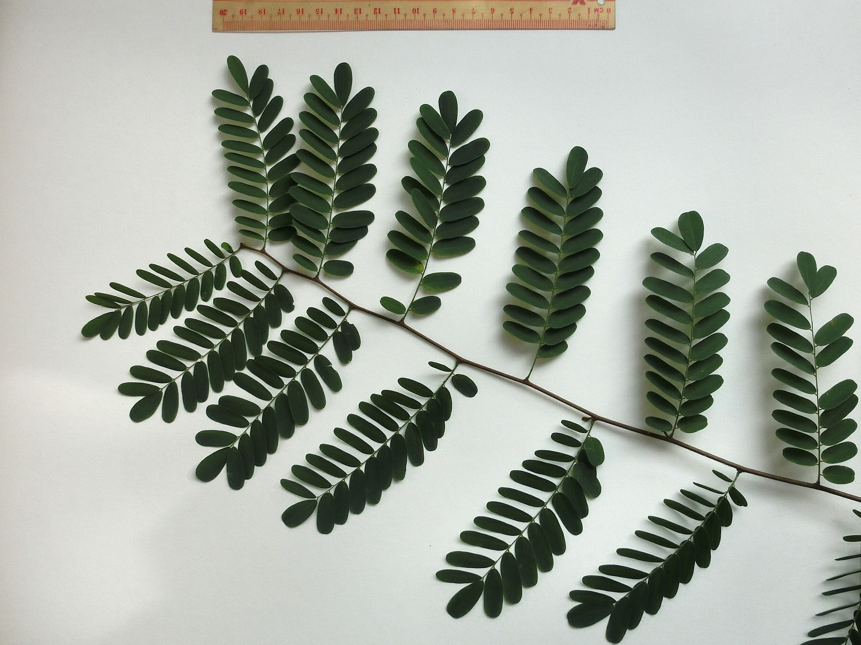 Leaves of Dalbergia nigra (Brazilian rosewood), specimen from greenhouse of Thuenen-Institute of wood research, Hamburg, Germany